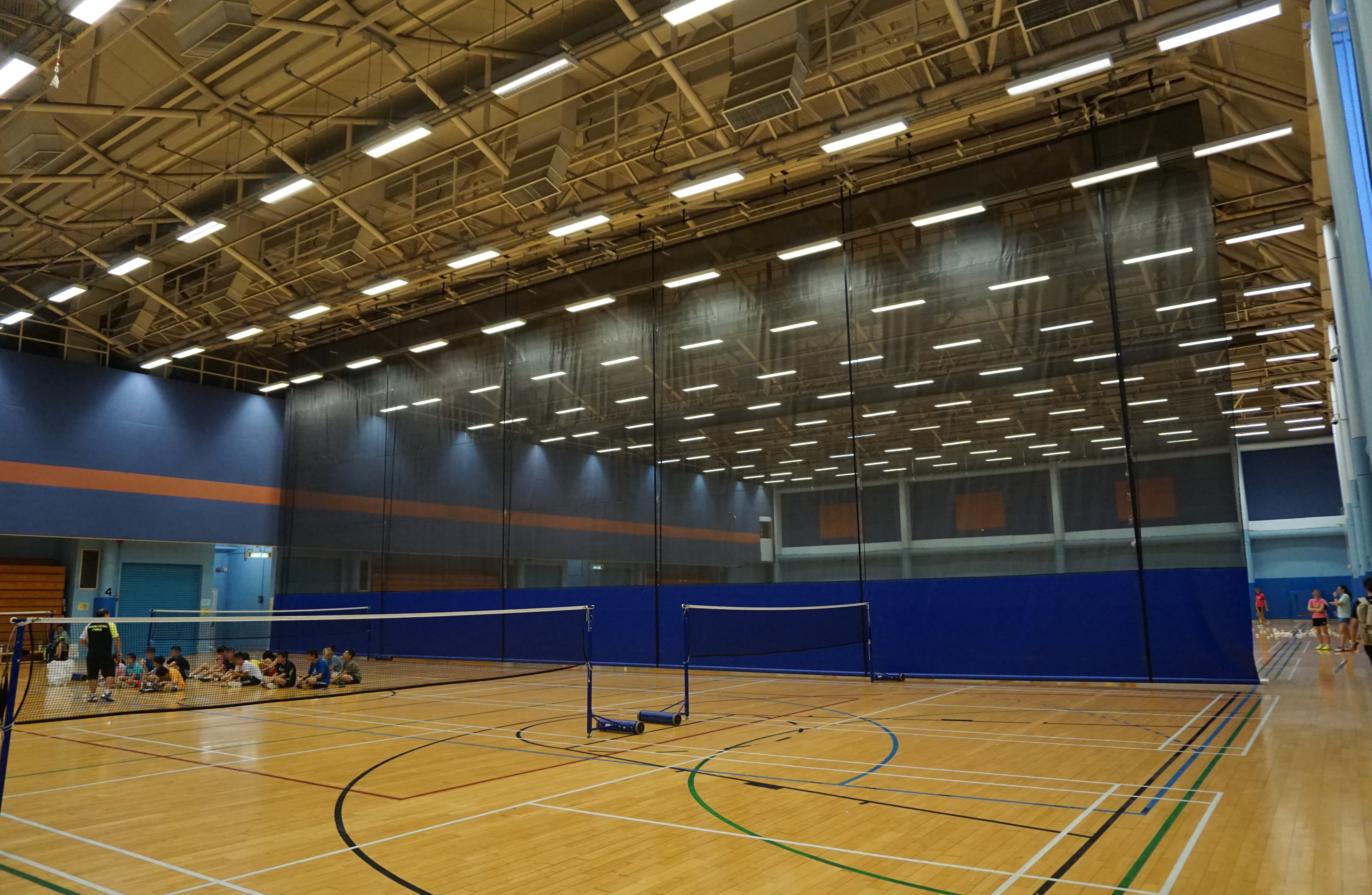 Kowloon Park Sports Centre in Tsim Sha Tsui, Hong Kong.